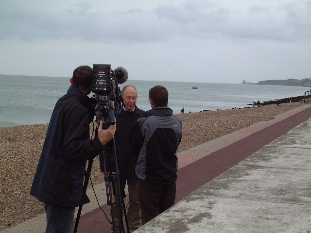 Air speed record course. On 7 November 1945 Group Captain H J Wilson set a new world air speed record of 606mph between Reculver and Herne Bay pier in a Gloster Meteor. This photograph was taken as part of the 60th anniversary celebrations and shows the record-breaking pilot's son being interviewed for television against a backdrop of the course. Unfortunately the weather was too poor to stage the planned re-enactment.